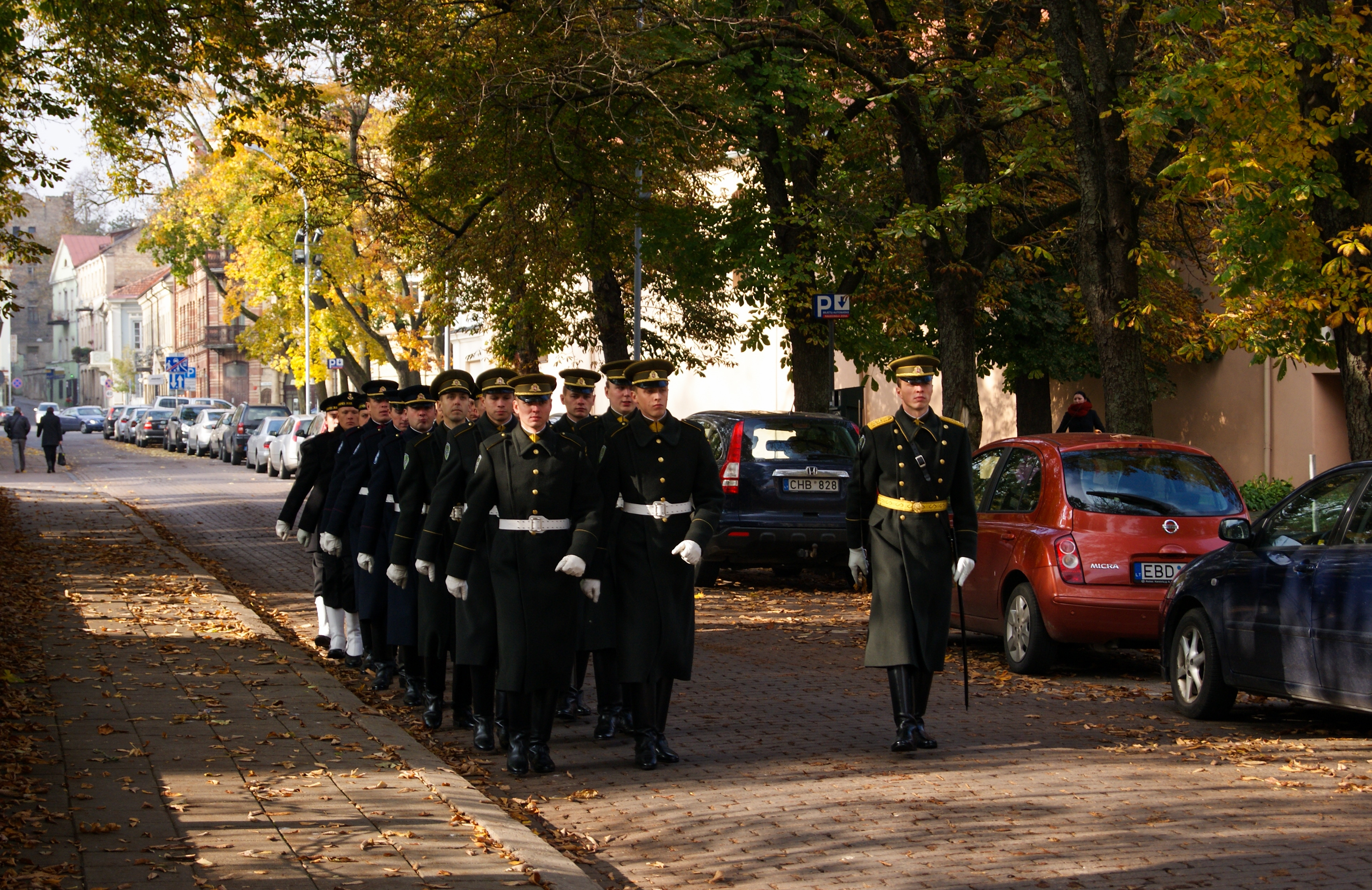 Read the story of this trip on !